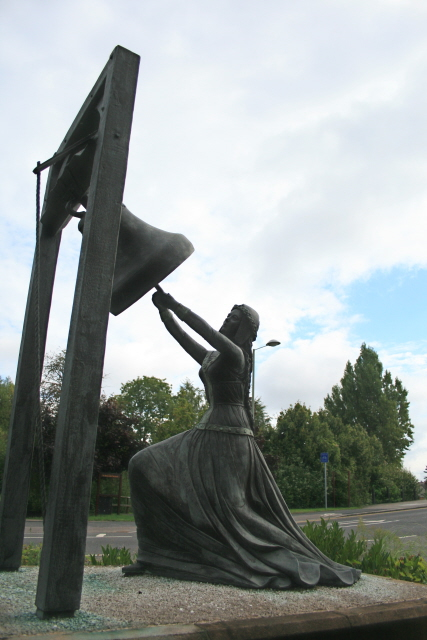 Statue of Blanche Heriot By Sheila Mitchell F.R.B.S. Commemorating the story from the 15th century. Blanche's lover Neville Audley was held captive at Chertsey Abbey and due to be executed when the sunset curfew bell rang. The tale tells that Blanche held on to the bell's clapper until a requested pardon from king Edward IV arrived. This according to a plaque on the plinth. See also Blanche_Heriot.